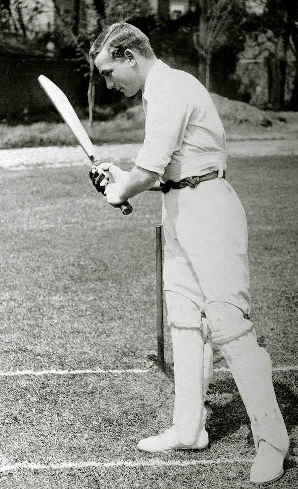 Joseph Hardstaff Senior, the Nottinghamshire and England right-hand batsman nicknamed 'Hotstuff' for his dashing style, who played in 5 Test matches for England 1907-1908.